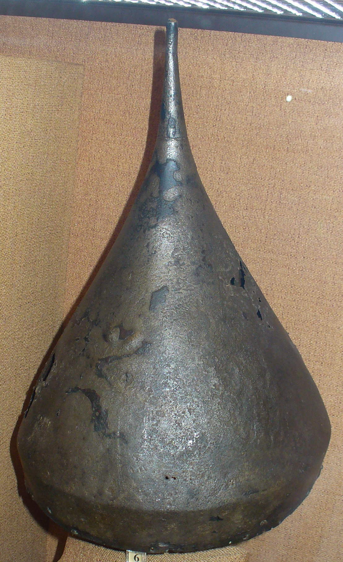 Helmet, Russia, 16 c. Founded in Kitaj-gorod, Moscow.